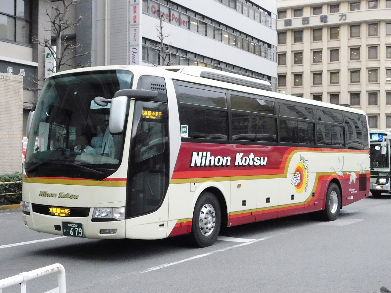 Nihon kotsu (Tottori) Mitsubishi Fuso Aero Ace (QTG-MS96VP)on highwaybus "Yonago-Kyoto"